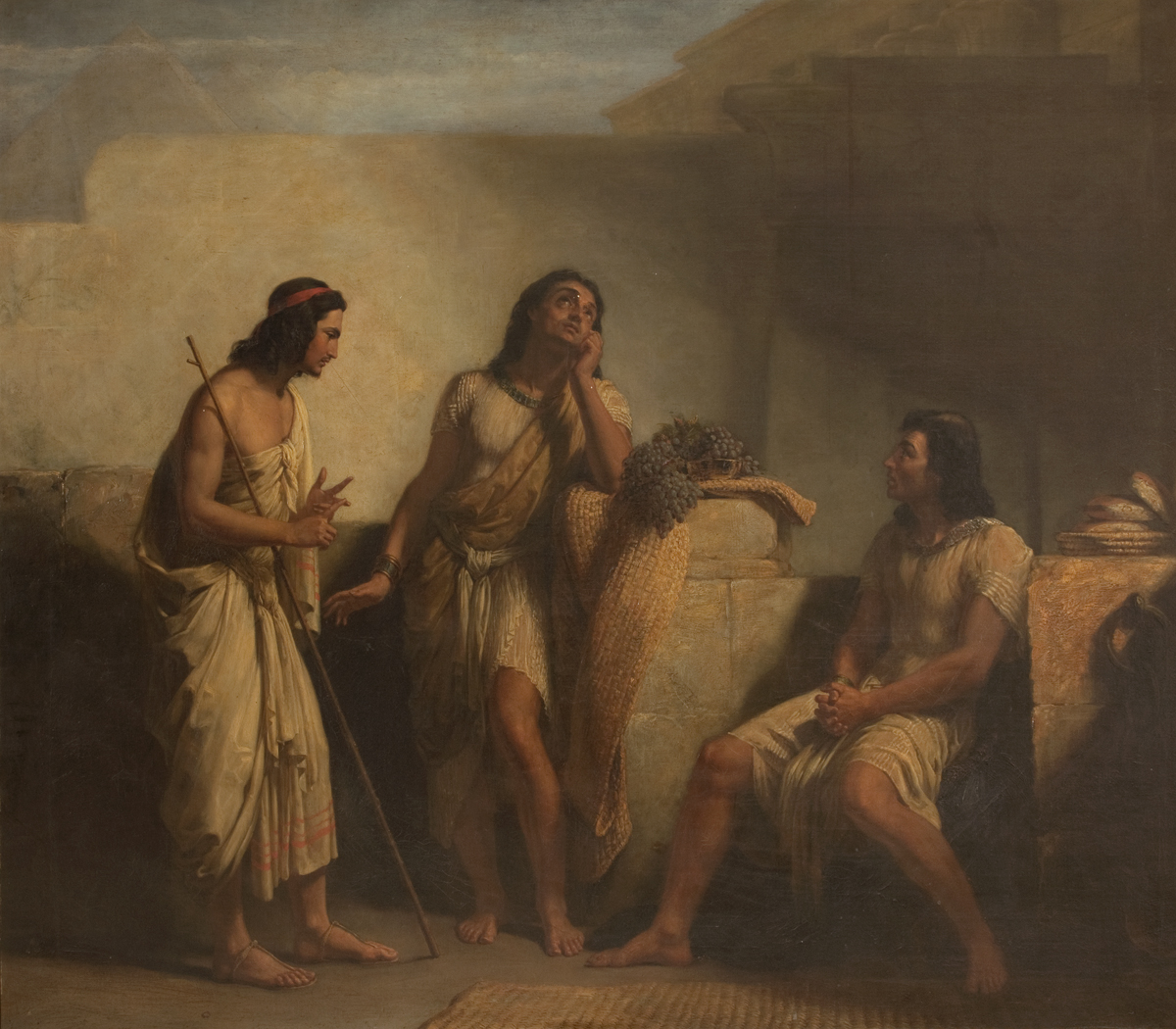 Hayter, George; Joseph Interpreting the Dream of the Chief Baker; Lancaster City Museums